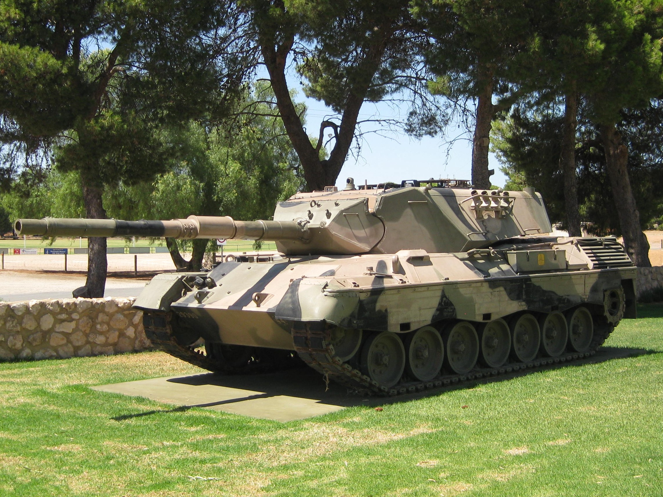 Leopard 1 tank located at Two Wells, South Australia.